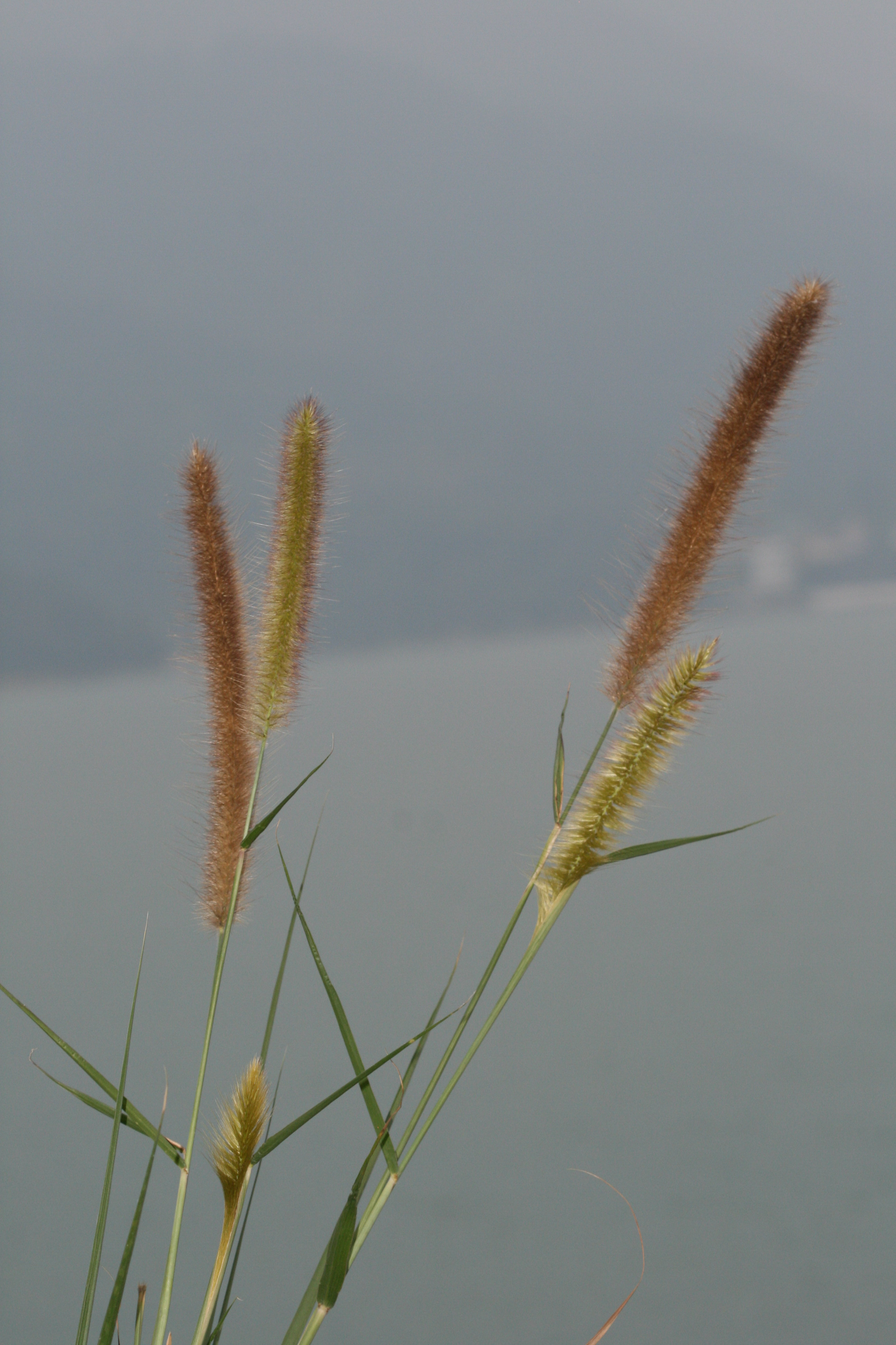 Pennisetum purpureum